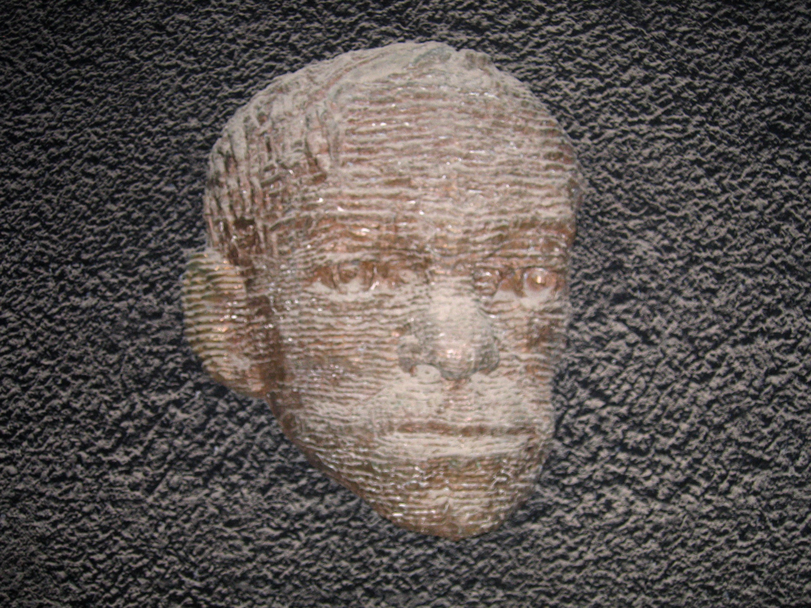 Ze'ev Jabotinsky portrait (1967) by Yitzhak Danziger (1916–1977) Alternative names Itzhak Danziger; Max Wilhelm Itzhak Danziger; Yitsḥaḳ DantsigerDescriptionIsraeli sculptor, pedagogue and landscape architectDate of birth/death 26 June 1916 11 July 1977 Location of birth/death Berlin Ramia (Israel)Work location Technion – Israel Institute of Technology Authority control : Q499555 VIAF: 52495521 ISNI: 0000 0001 2211 0751 ULAN: 500075609 LCCN: n82026930 Open Library: OL6752174A WorldCat creator QS:P170,Q499555